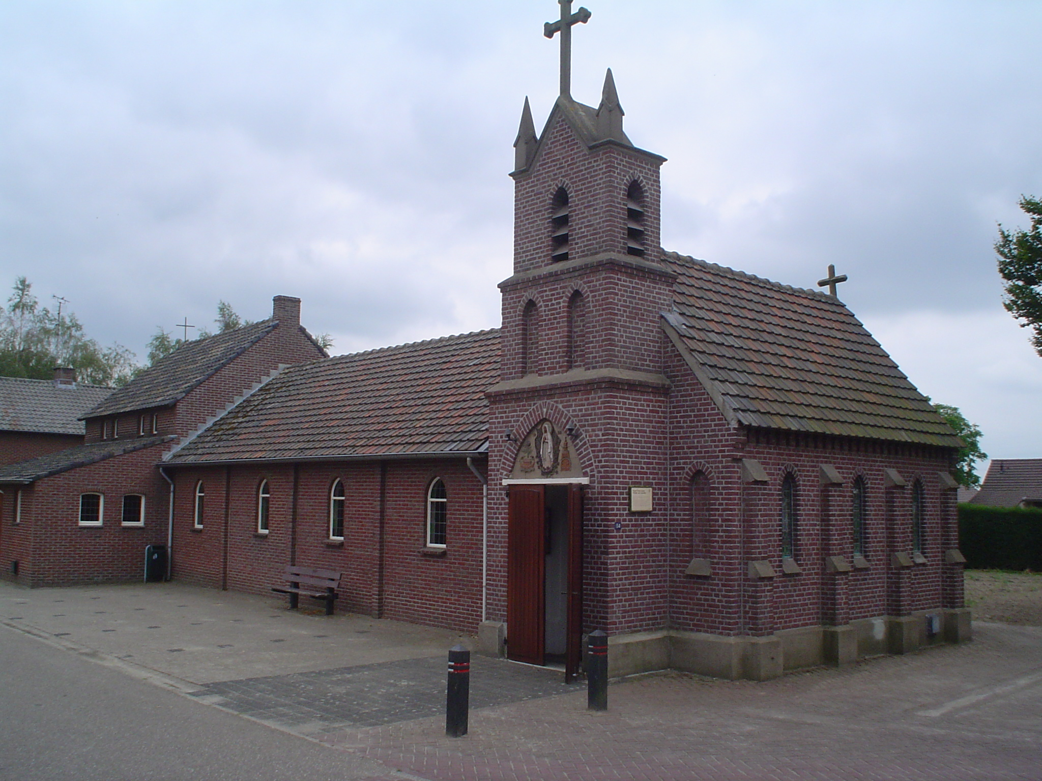 Our Lady of Lourdes church in the hamlet Schoor, near Nederweert, the Netherlands.